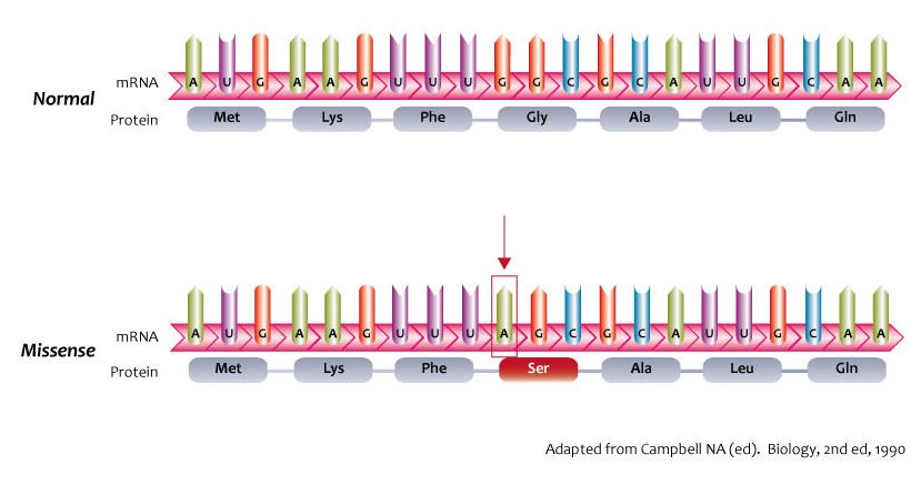 This image was created by the NHS National Genetics and Genomics Education Centre. For further information and resources please visit our website